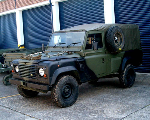 Photo I took on 1 august 2006 Talskiddy 19:45, 1 August 2006 (UTC) Landrover wolf